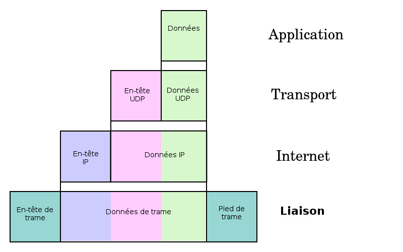 Encapsulation of application data descending through the layered TCP/IP architecture, in French